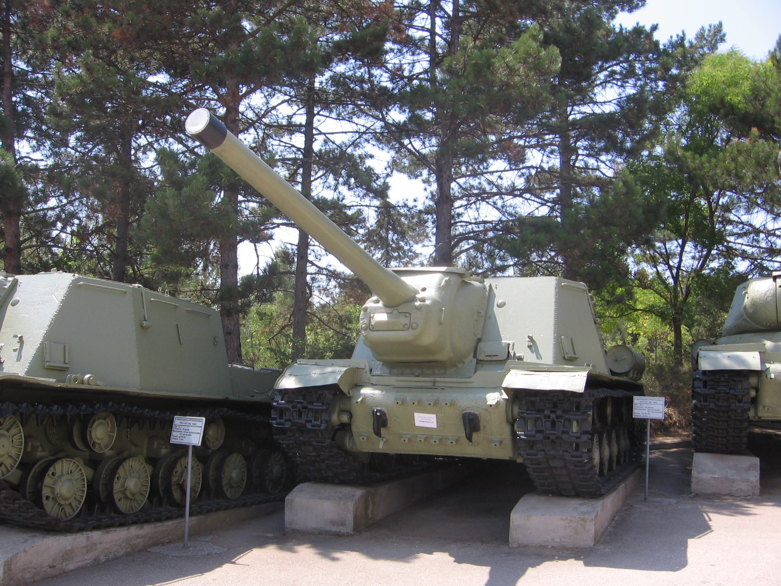 Soviet ISU-122 Model 1944, manufactured in 1944-1945, is displayed at the Museum of Heroic Defense and Liberation of Sevastopol on Sapun Mountain in Sevastopol.